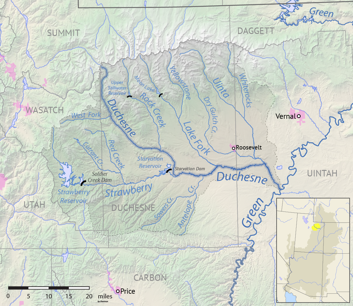 Map of the Duchesne River drainage basin in Utah, USA. Made using USGS data.